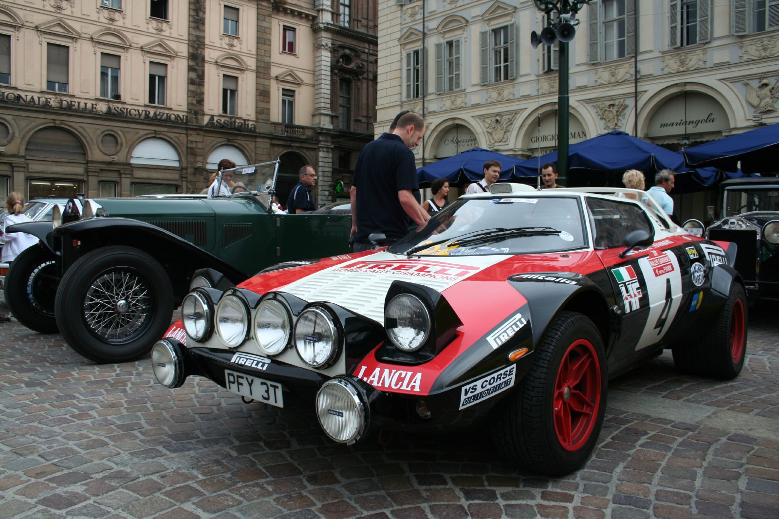 British Hawk replica at the Lancia centenary celebrations in Turin in 2006.